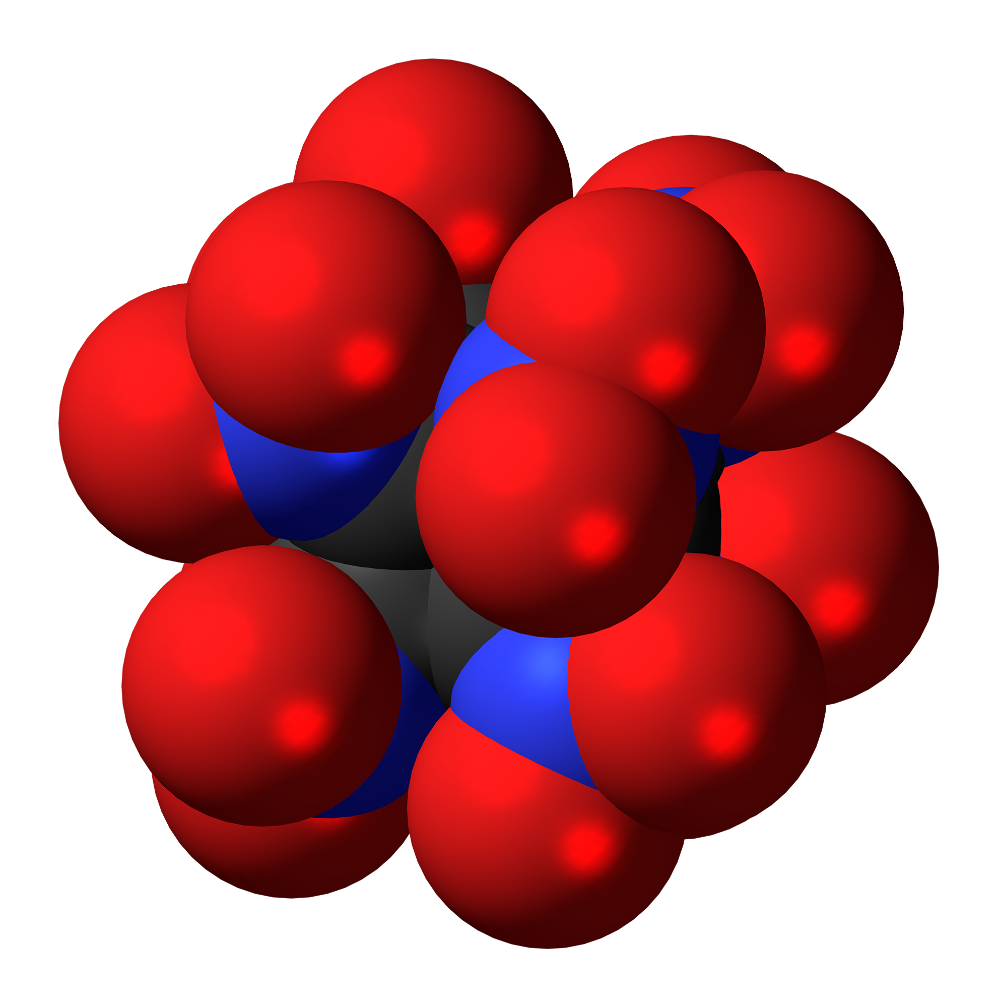 Space-filling model of the octanitrocubane molecule, a high explosive. Color code: Carbon, C: black Oxygen, O: red Nitrogen, N: blue